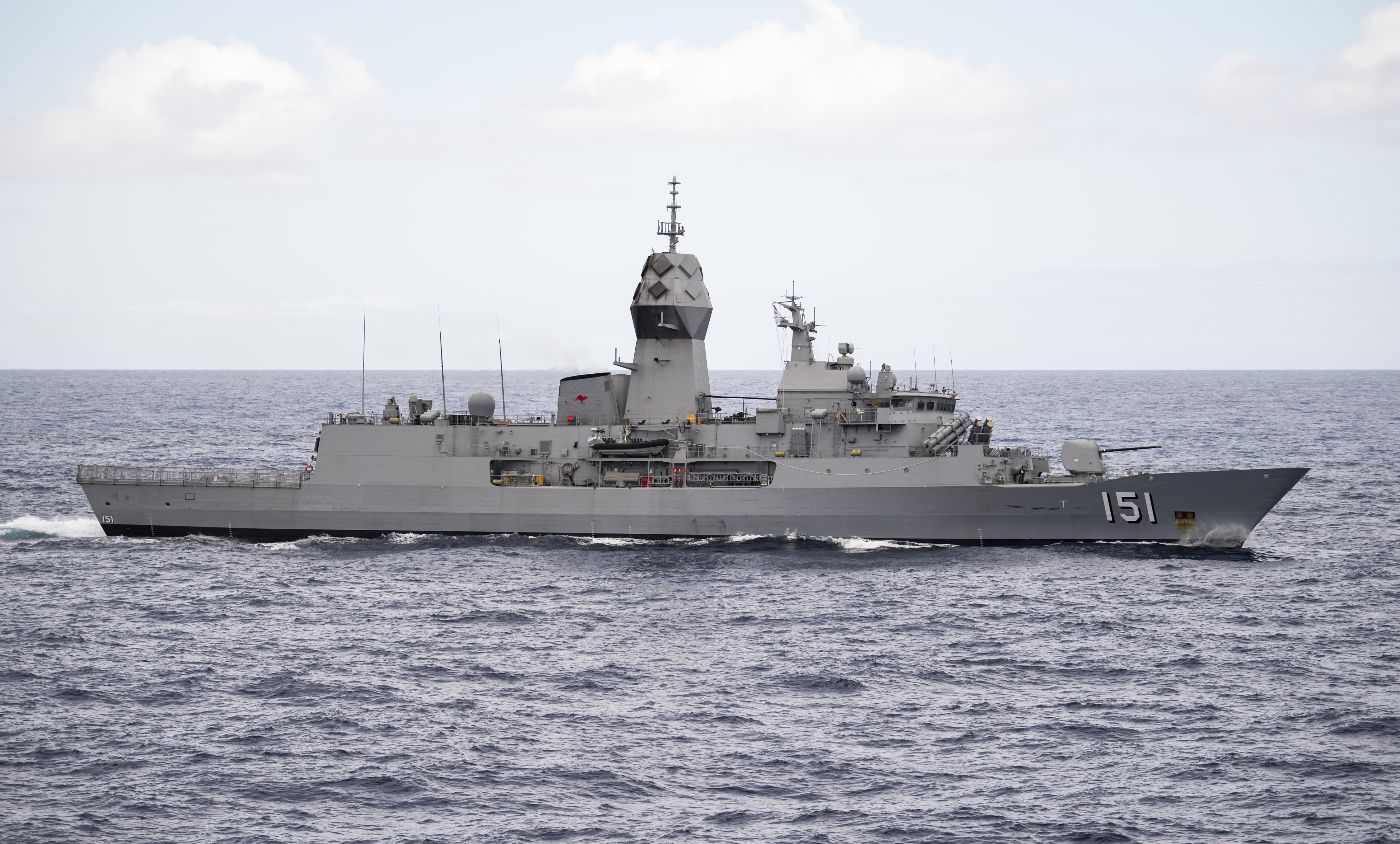 200821-N-LI768-1058 PACIFIC OCEAN (Aug. 21, 2020) – Royal Australian Navy frigate HMAS Arunta (FFH 151) transits the Pacific Ocean during Rim of the Pacific 2020.